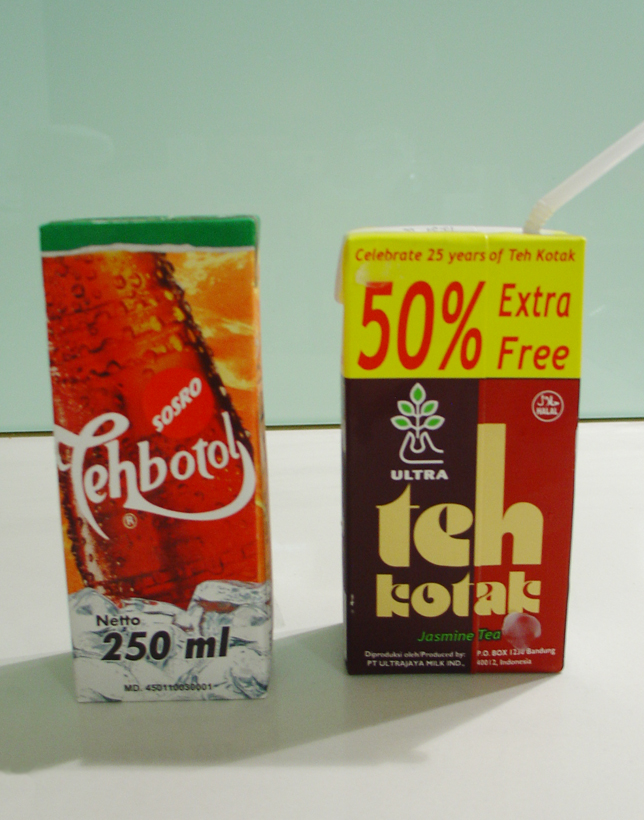 Teh Botol and its competitor, Teh Kotak